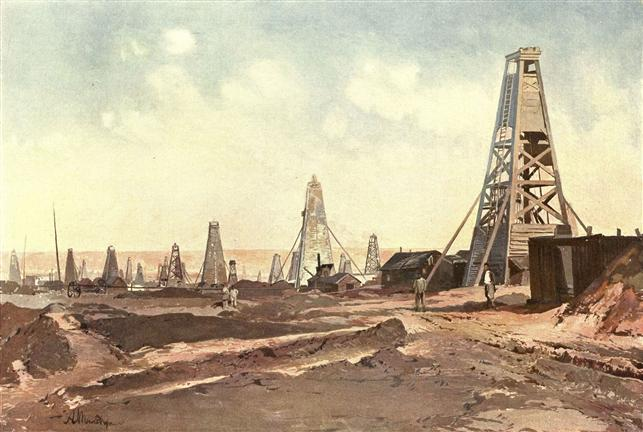 Original caption:In the beginning, primitive methods were used on the oilfields in Baku, but the technological developments soon began to make the extraction and distillation of oil more efficient.